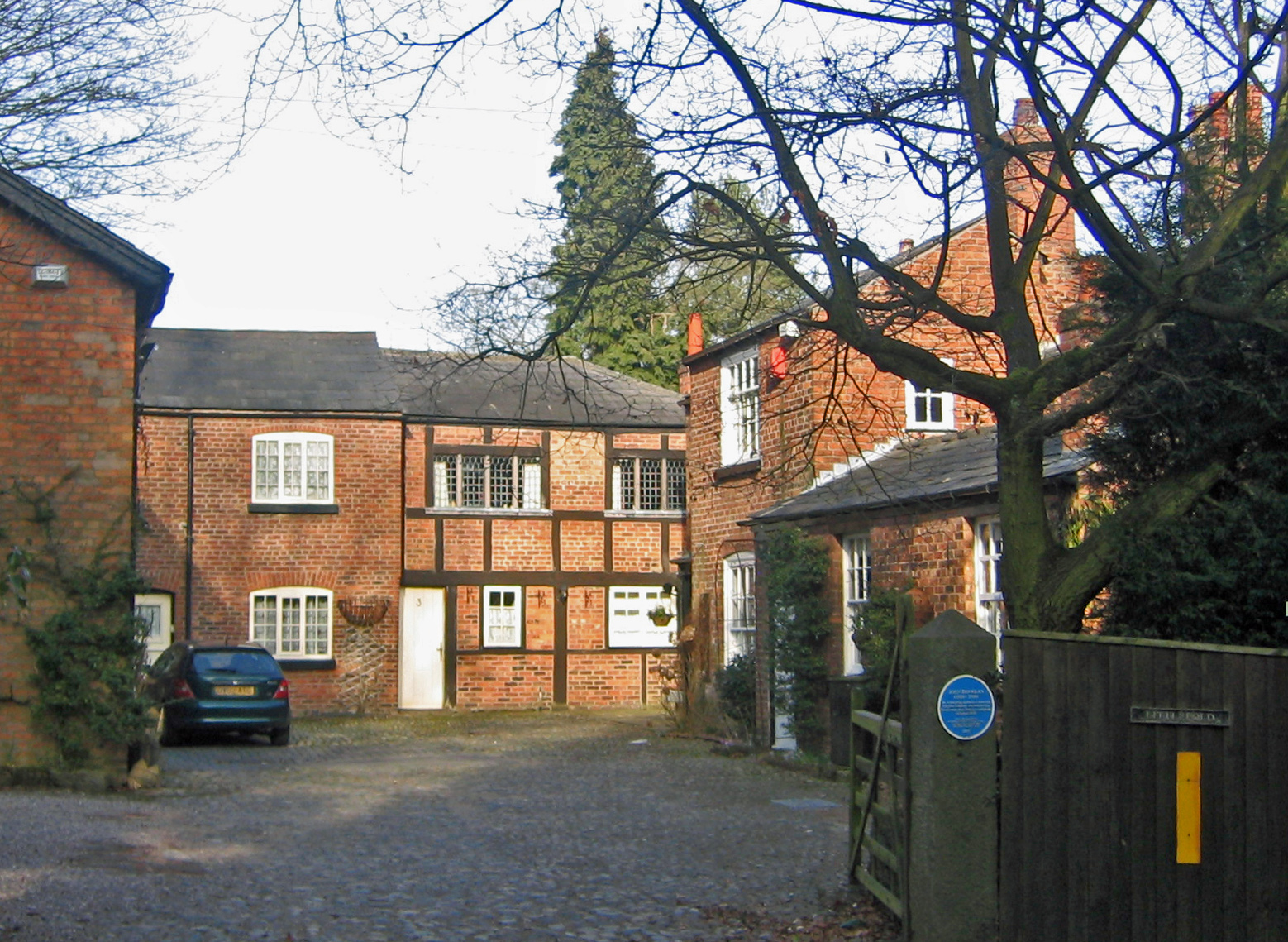 Photograph of the birthplace of the architect John Douglas